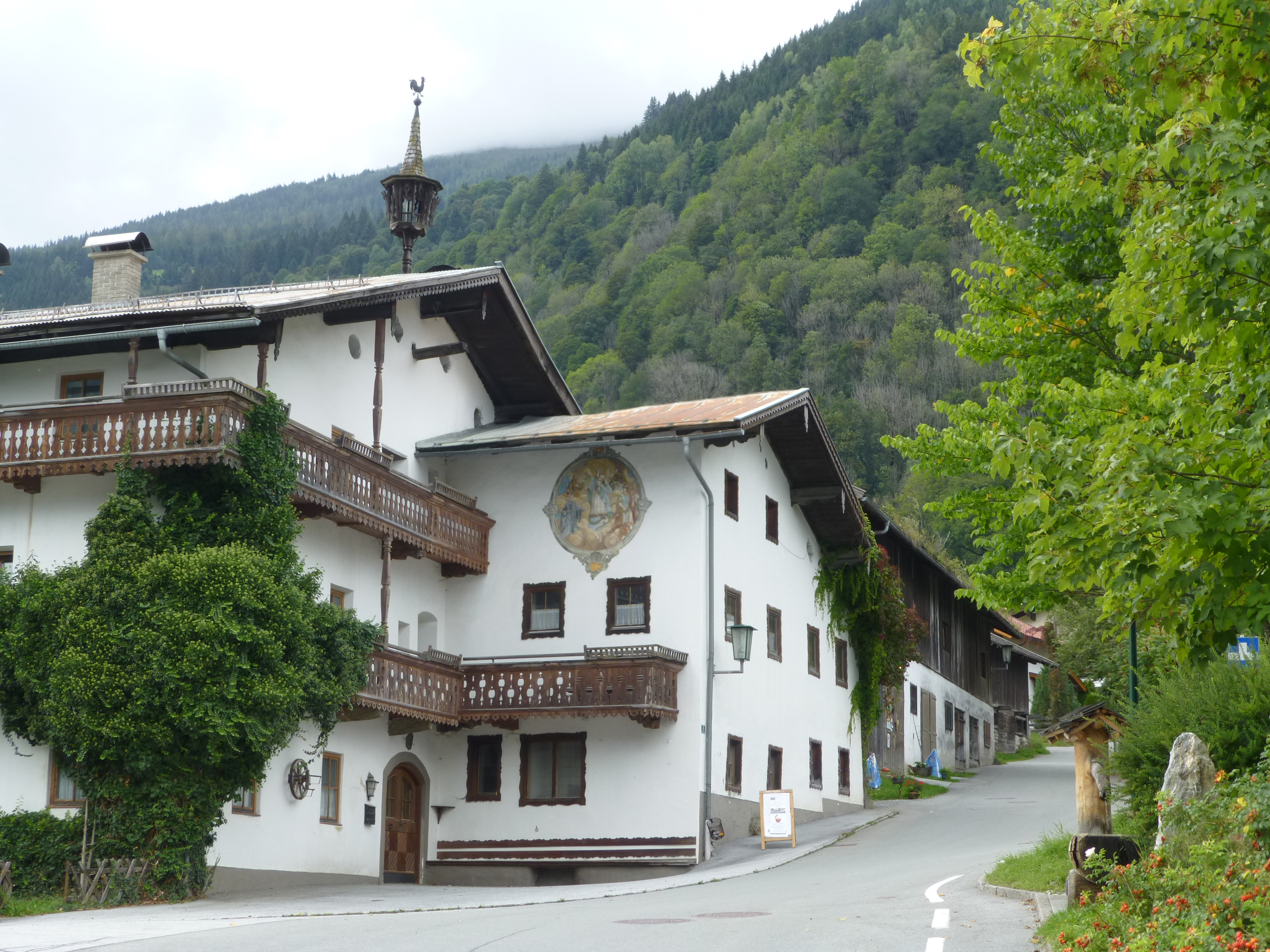 Typical farm house in the Salzach valley at Bramberg. Third view (after 1965 and 2008).